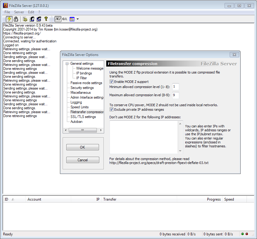 Screenshot made by Sofia Lucifairy. Screenshot shows FileZilla FTP Server on Windows 7. Screenshot produced with Windows 7 Snipping Tool. Screenshot made by Sofia Lucifairy and placed in the public domain and Creative Commons Zero. The software shown (FileZilla FTP Server) is Copyright by its authors and is licensed under the GPL (GNU General Public License). Therefore, the screenshot is either GPL or public domain but I have no idea about these stupid legal stuff and I hate anything related to the law, so you should read these stupid laws and decide what license applies here. If a screenshot is copyrighted by the screenshot producer then it's public domain. If a screenshot is copyrighted by the software authors then it is GPL.